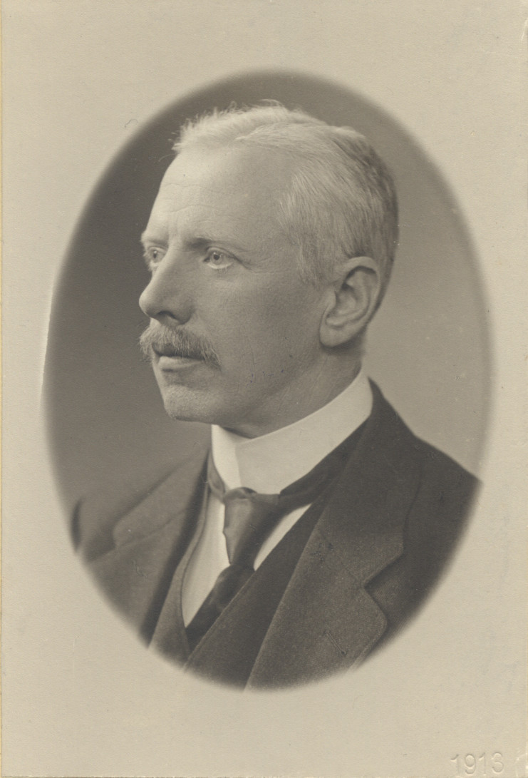 Portrait of Karl Eger